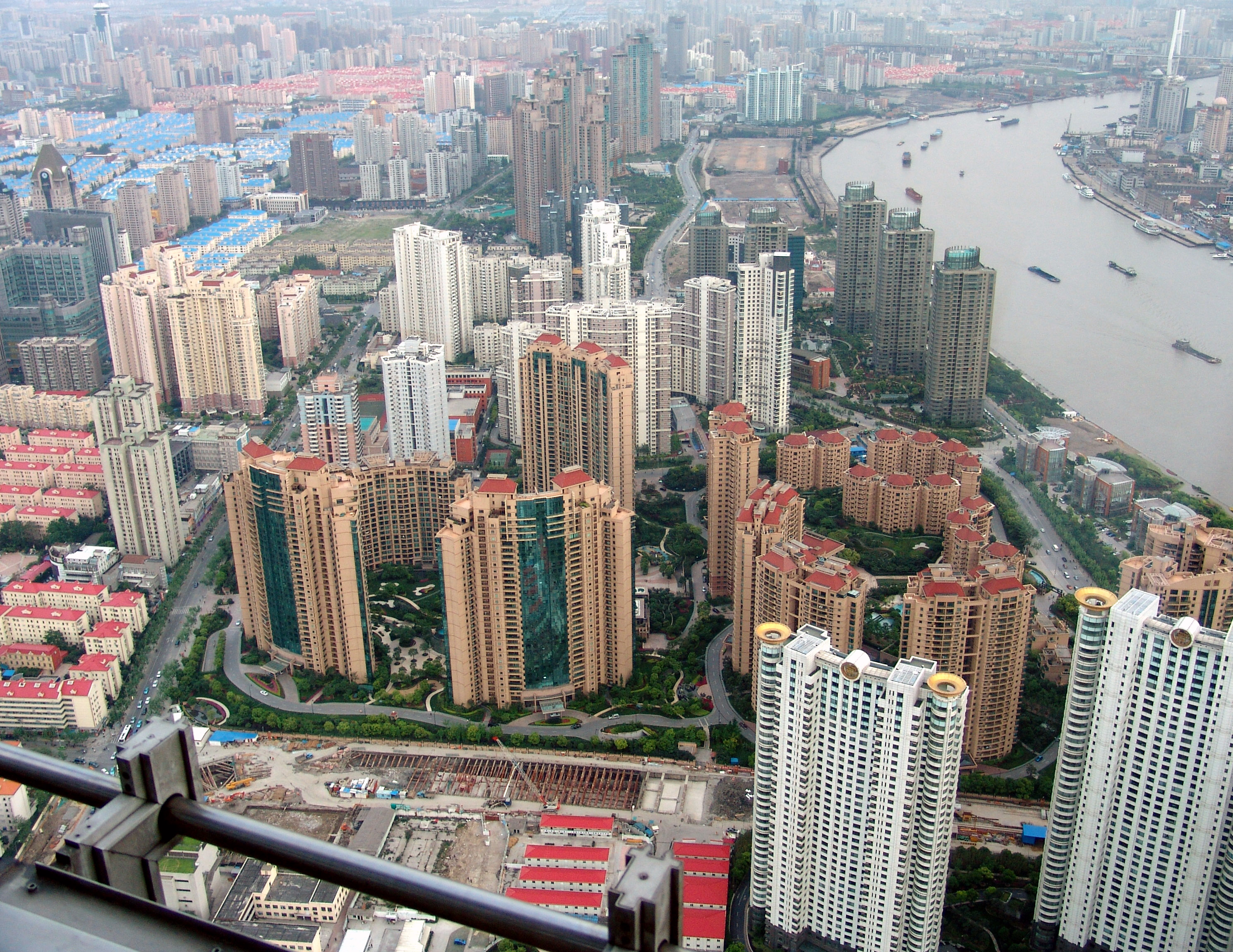 A view of Pudong from Jin Mao Tower